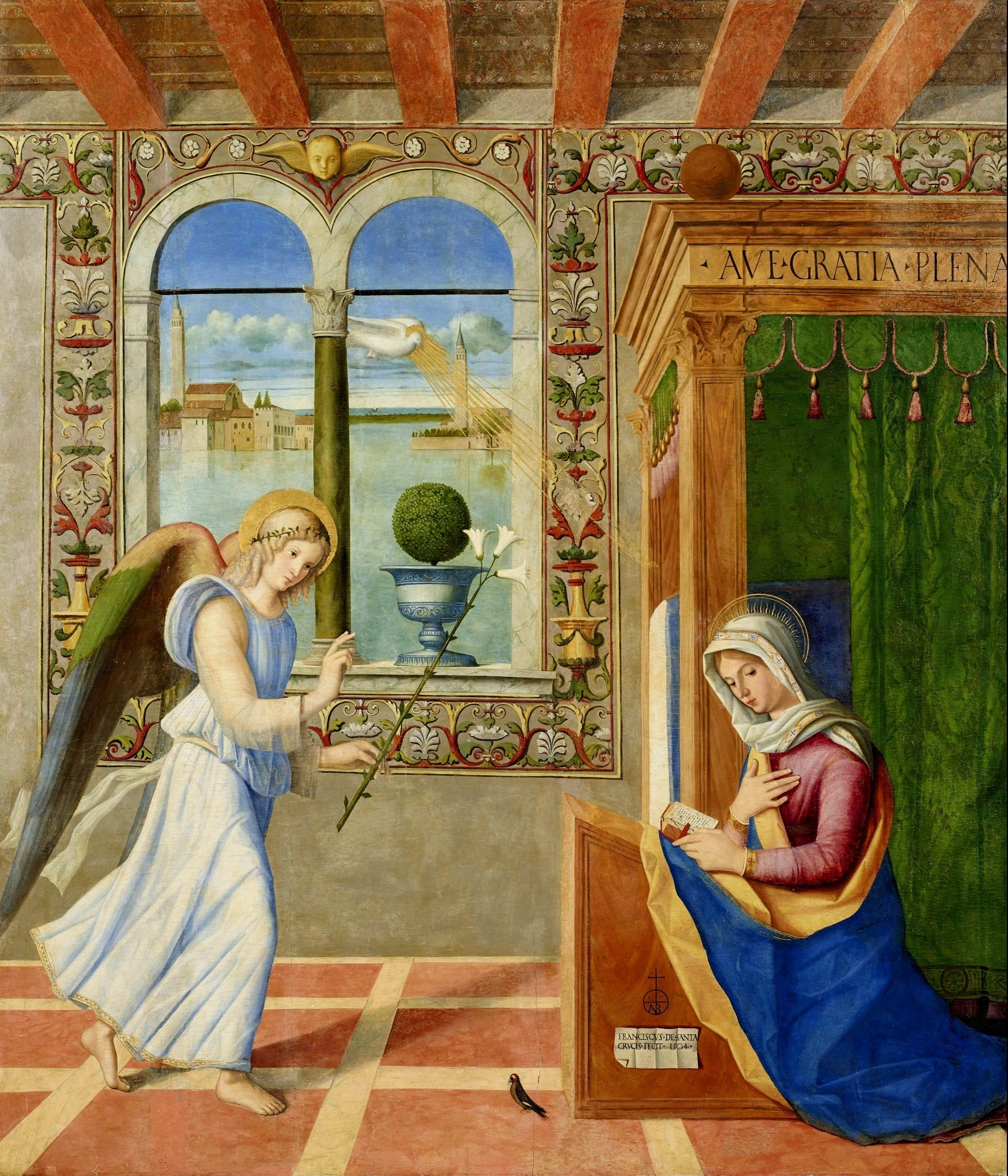 FRANCESCO di Simone da Santacroce Annuciation (1504), Pinacoteca Carrara, Bergamo.